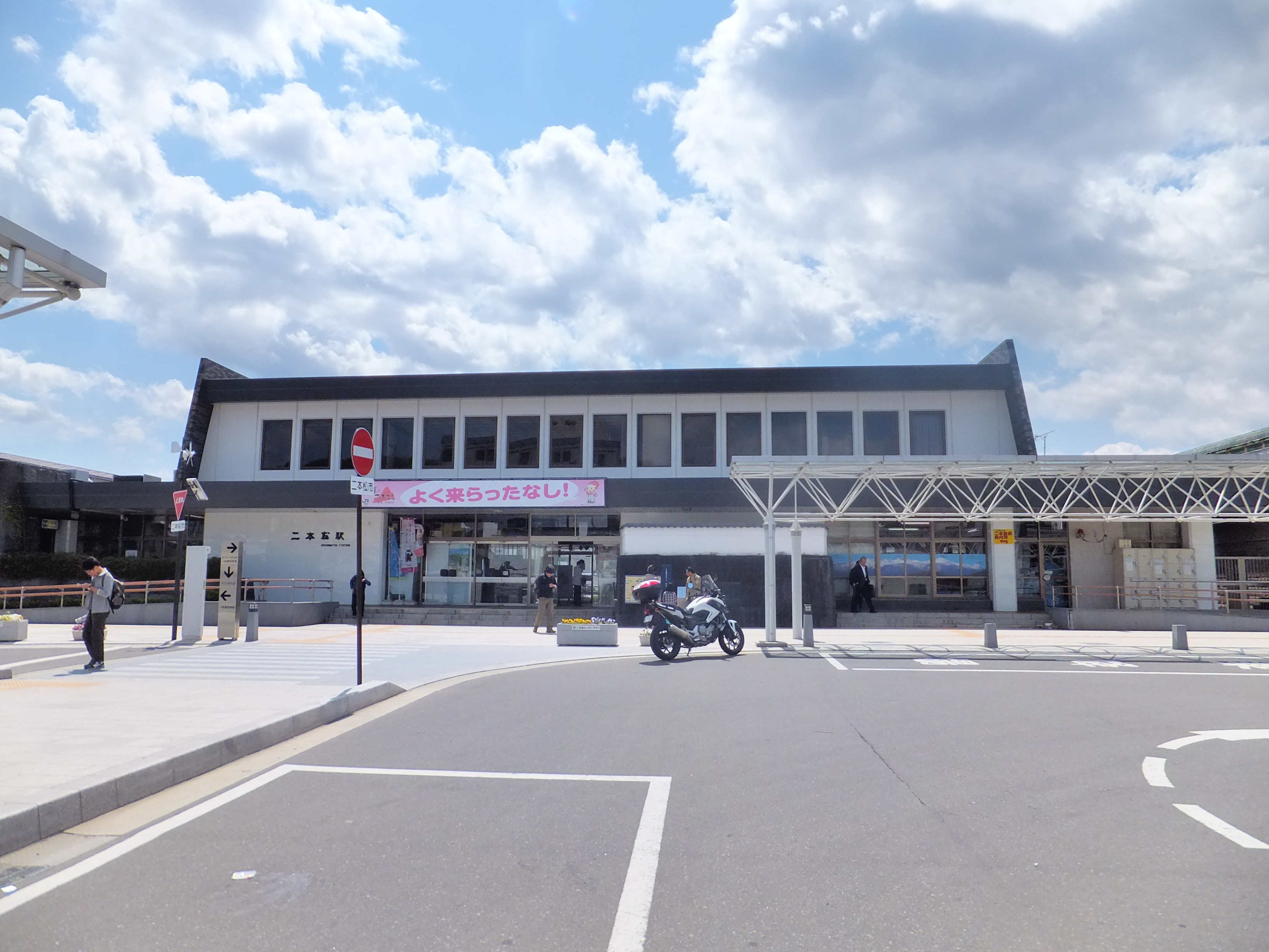 Nihommatsu Station, Fukushma Pref., Japan.